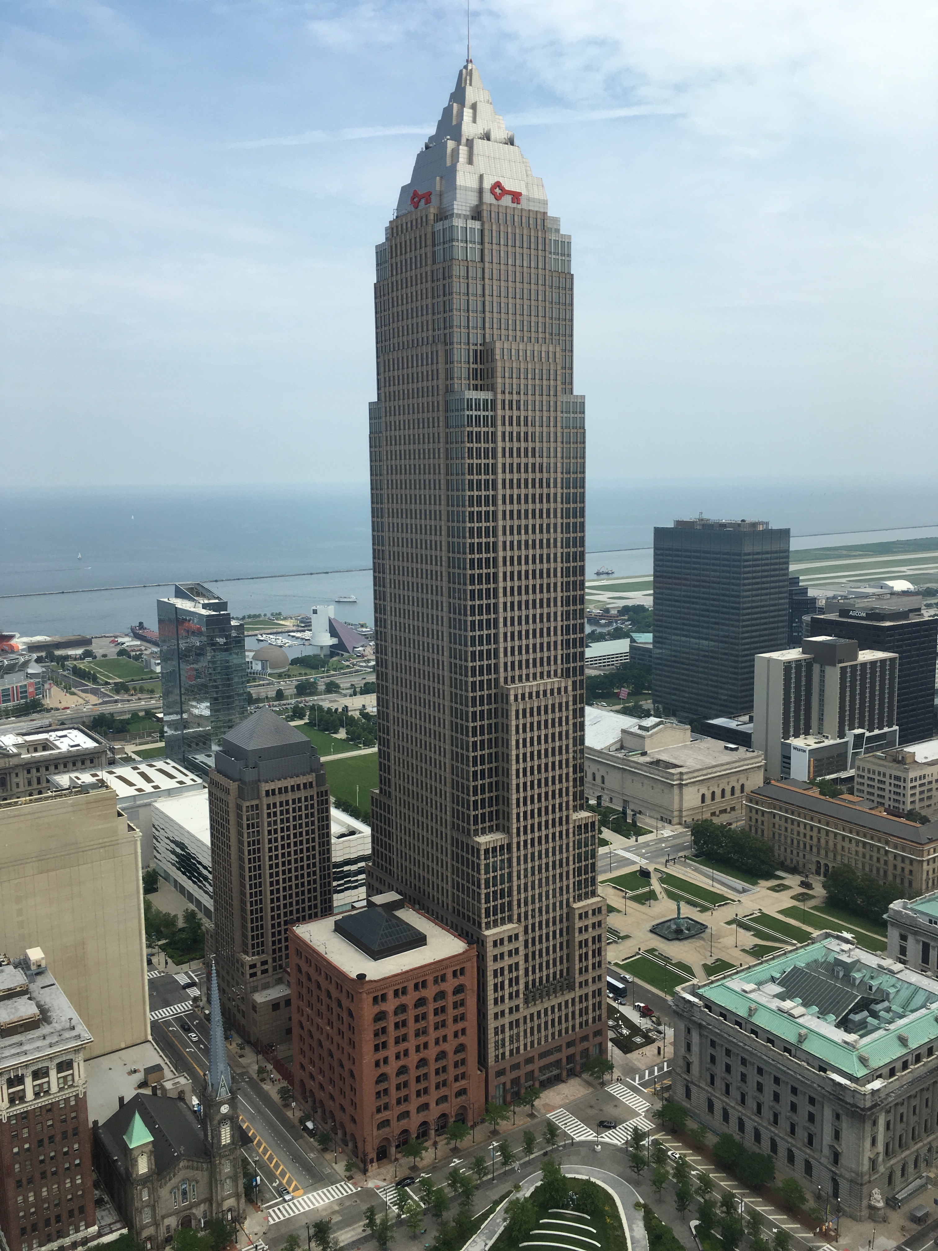 Key Tower